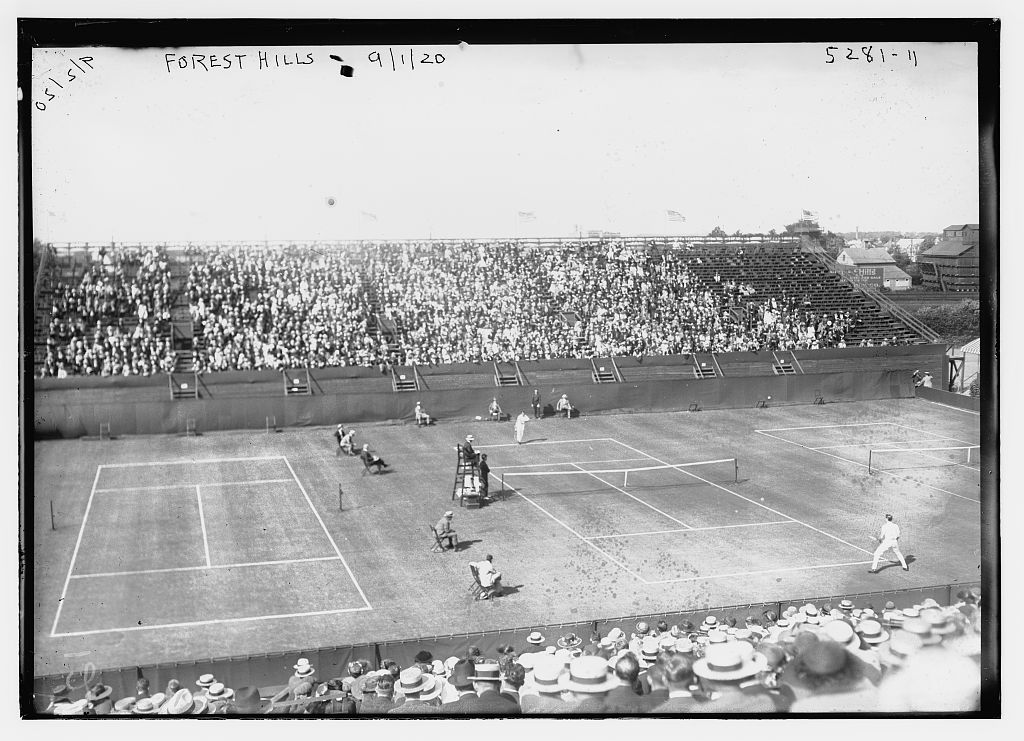 Forset Hills, U.S. National Championships Tennis, 1920